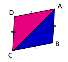 SSS